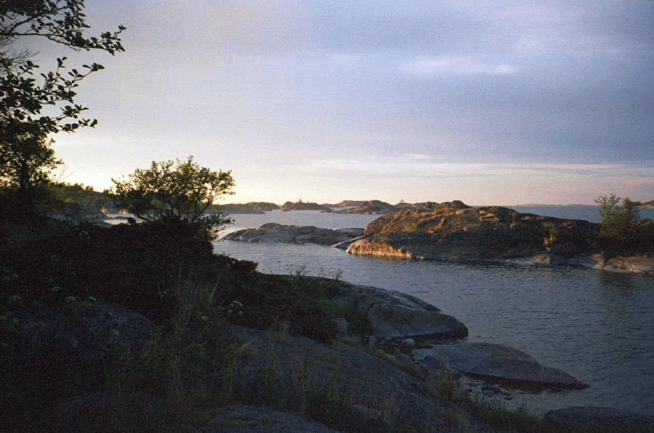 The passage on the north side of Björkskär, Stockholm archipelago